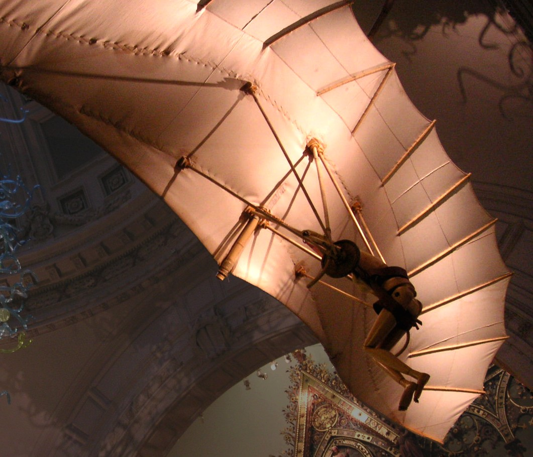 V&A flying machine by Leonardo